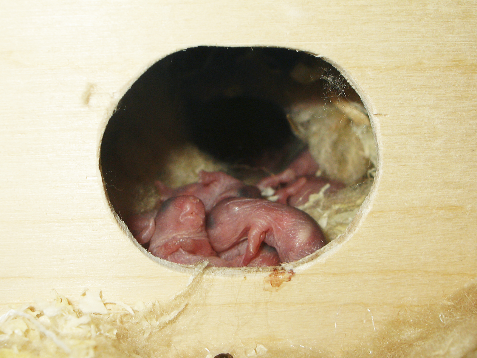 Newborn Djungarian Hamsters, two days old.